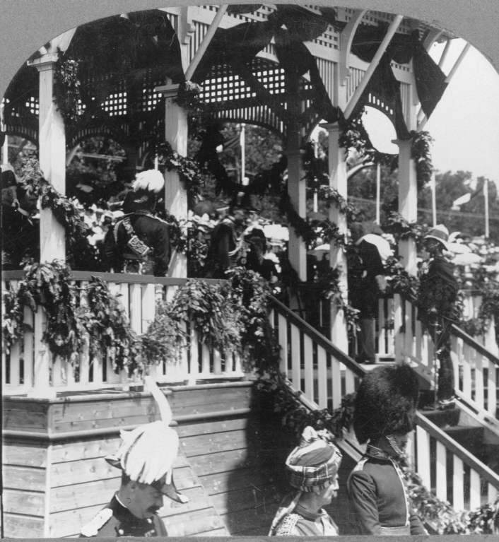 Prince of Wales presenting Title Deeds to Earl Grey, Quebec Tercentenary. Quebec City, Canada